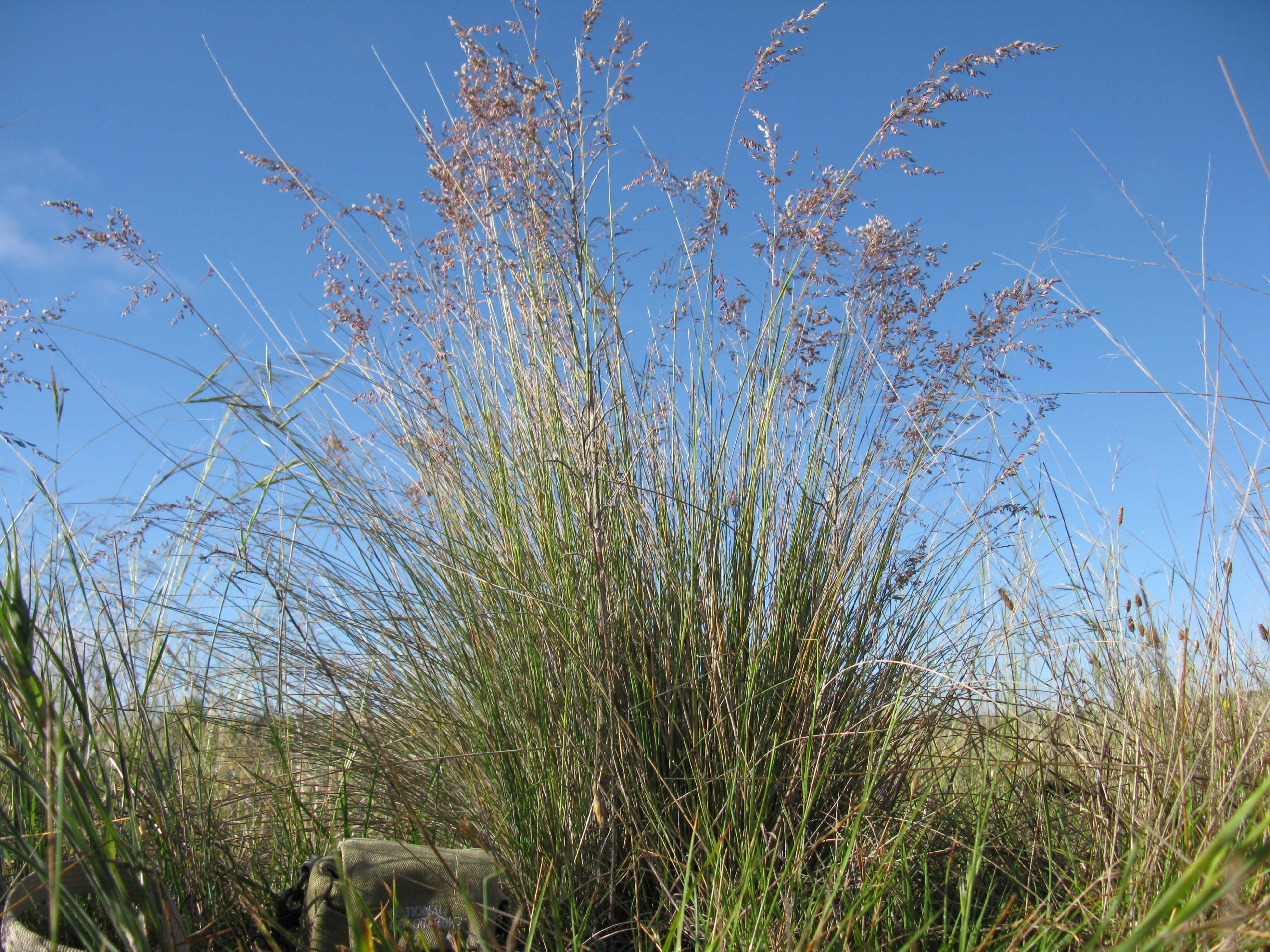 Poa sieberiana